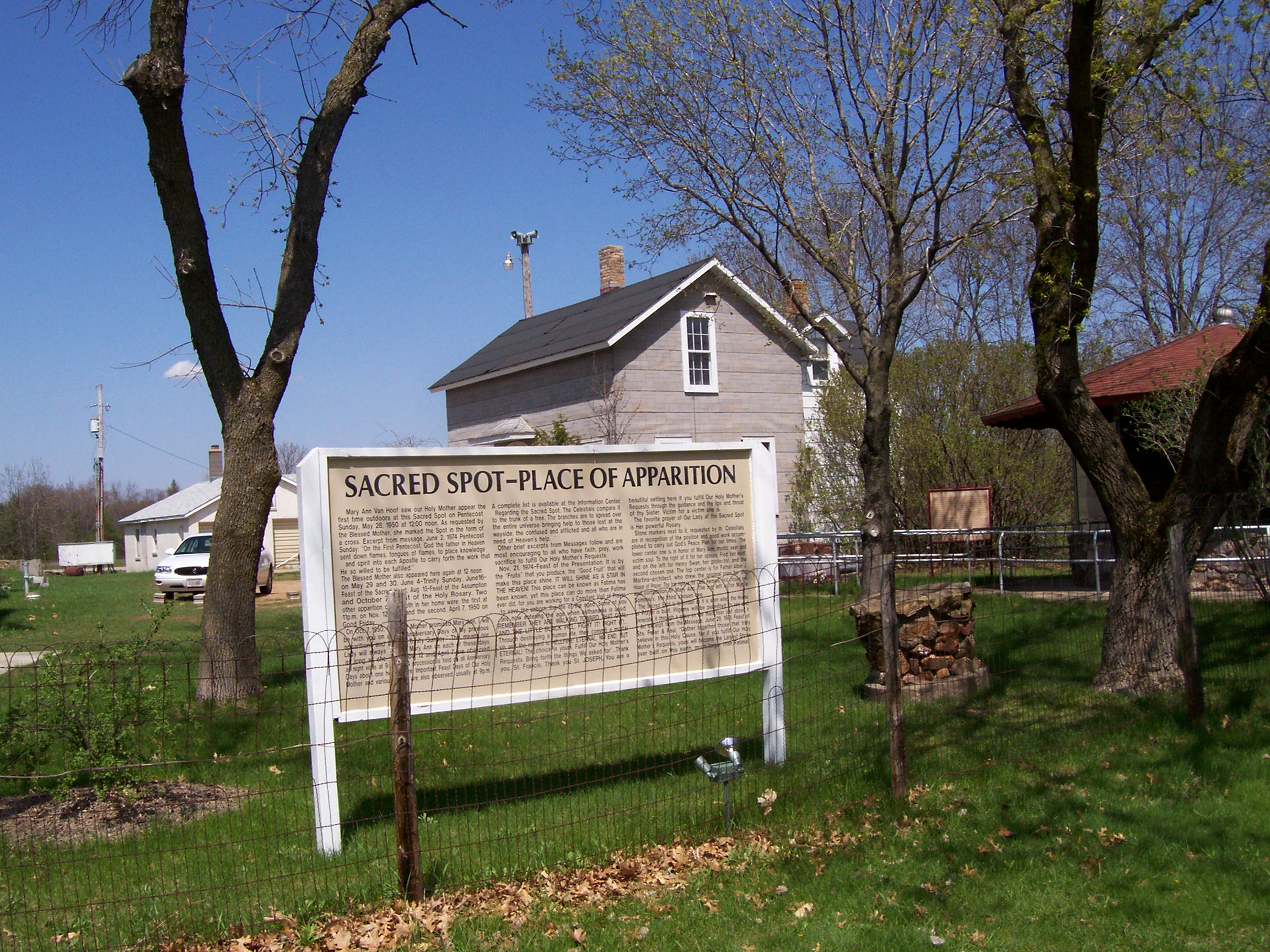 An apparition spot and replica house at the Necedah Shrine east of Necedah, Wisconsin, USA.